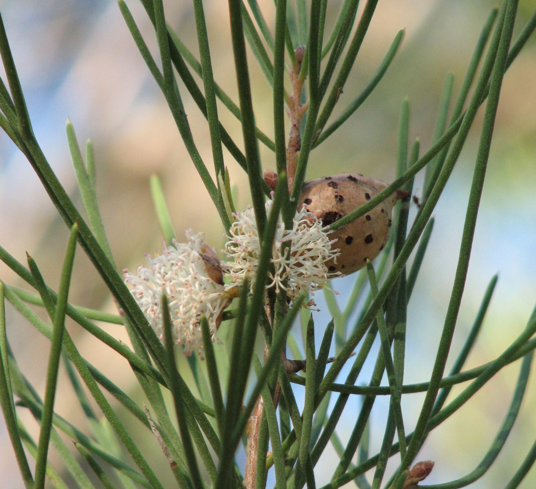 Hakea drupacea (cultivated), Mornington Peninsula, Victoria, Australia